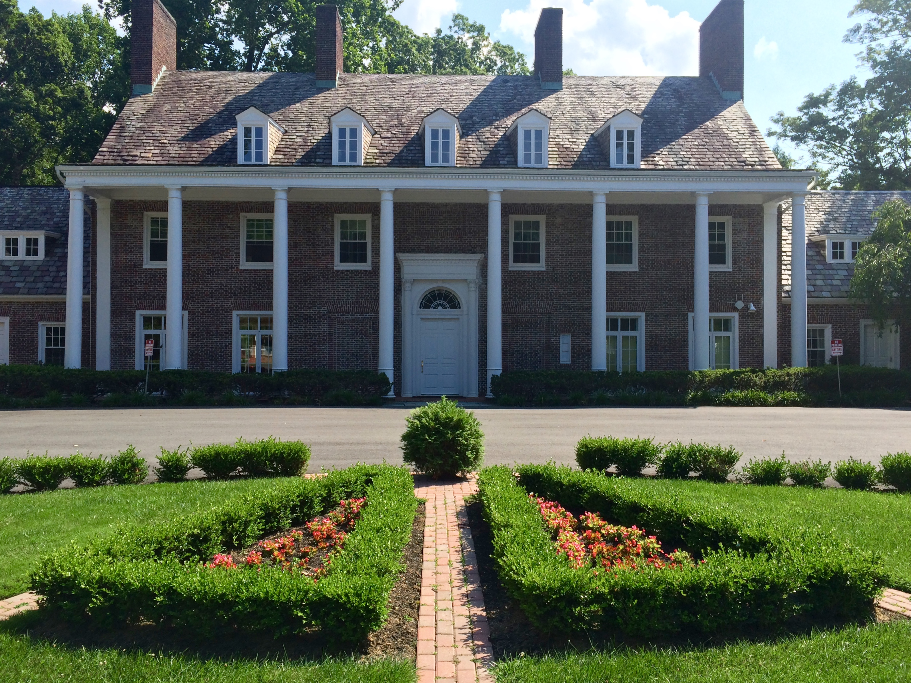 Albemarle, the 1917 estate of the pharmaceutical magnate Gerard B. Lambert, at 19 Lambert Drive in Princeton, New Jersey. Long the home of the American Boychoir School, now home to the Princeton International School of Mathematics and Science.